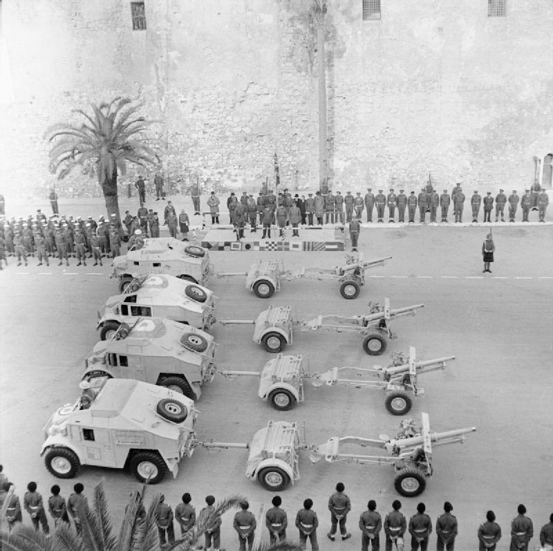 The British Army in North Africa 1943 Chevrolet FATs and a Morris 'Quad' towing 25pdr field guns pass Winston Churchill and General Montgomery on the saluting base during the march-past of 8th Army in Tripoli, 7 February 1943. Note the large air recognition roundels on the roofs of two vehicles.